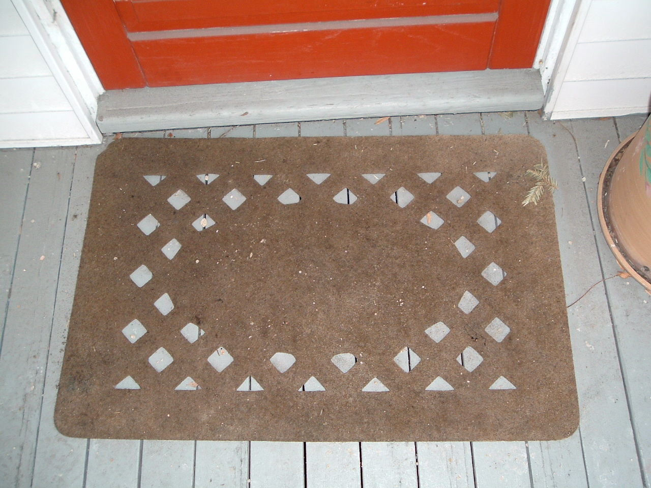 Welcome mat from the early 21st century in Lexington, Massachusetts.